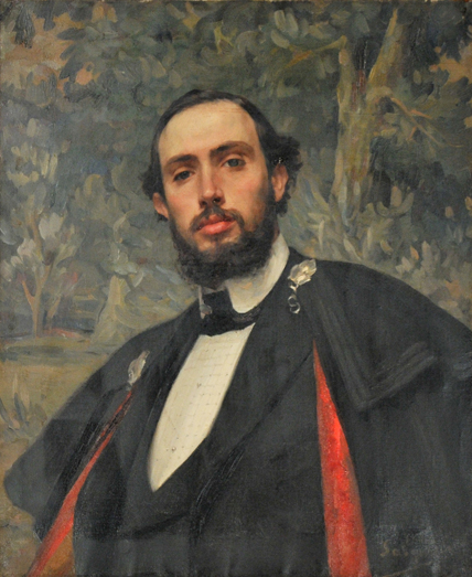 Portrait of Aleixo de Queiroz Ribeiro, later the Count of Santa Eulália (known in the US as Alexis Santa Eulalia), by Veloso Salgado. Dates 1895.